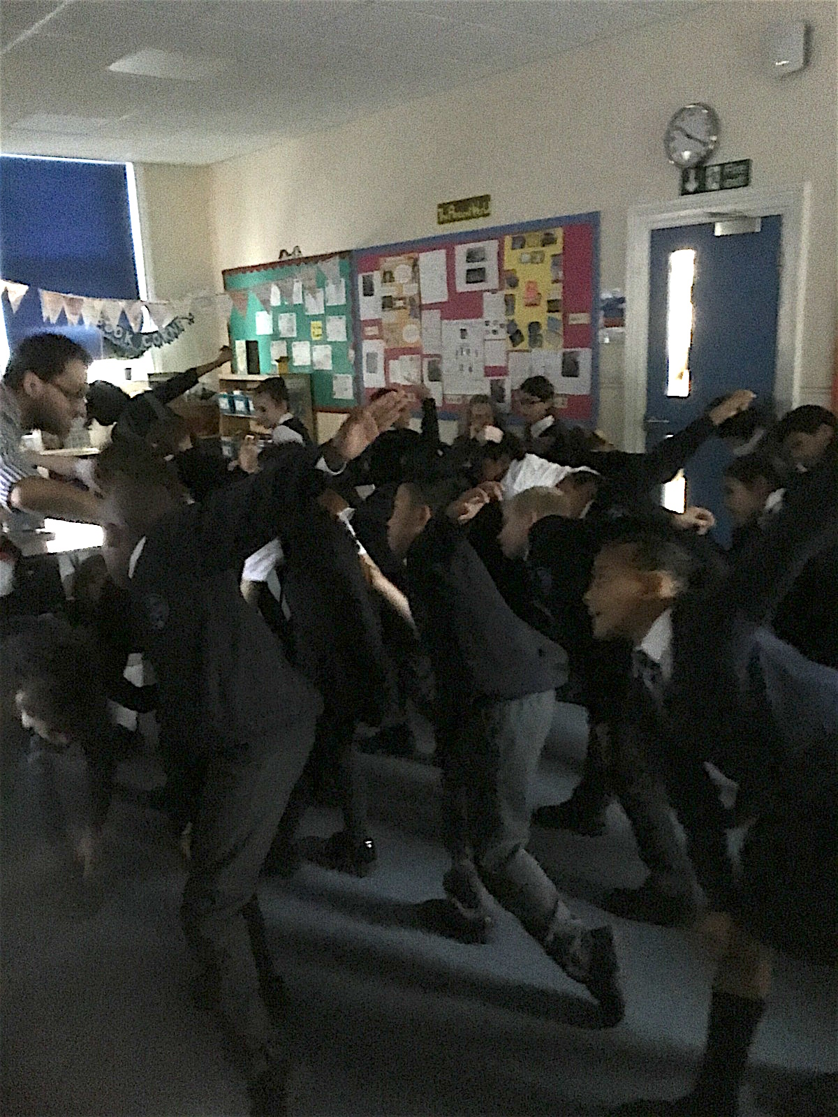 Pupils from Rosary RC Primary School, LEA Camden, pose as the Discus Thrower during its Magic Lantern workshop, October 2017. Reported in First News, 15 December 2017.